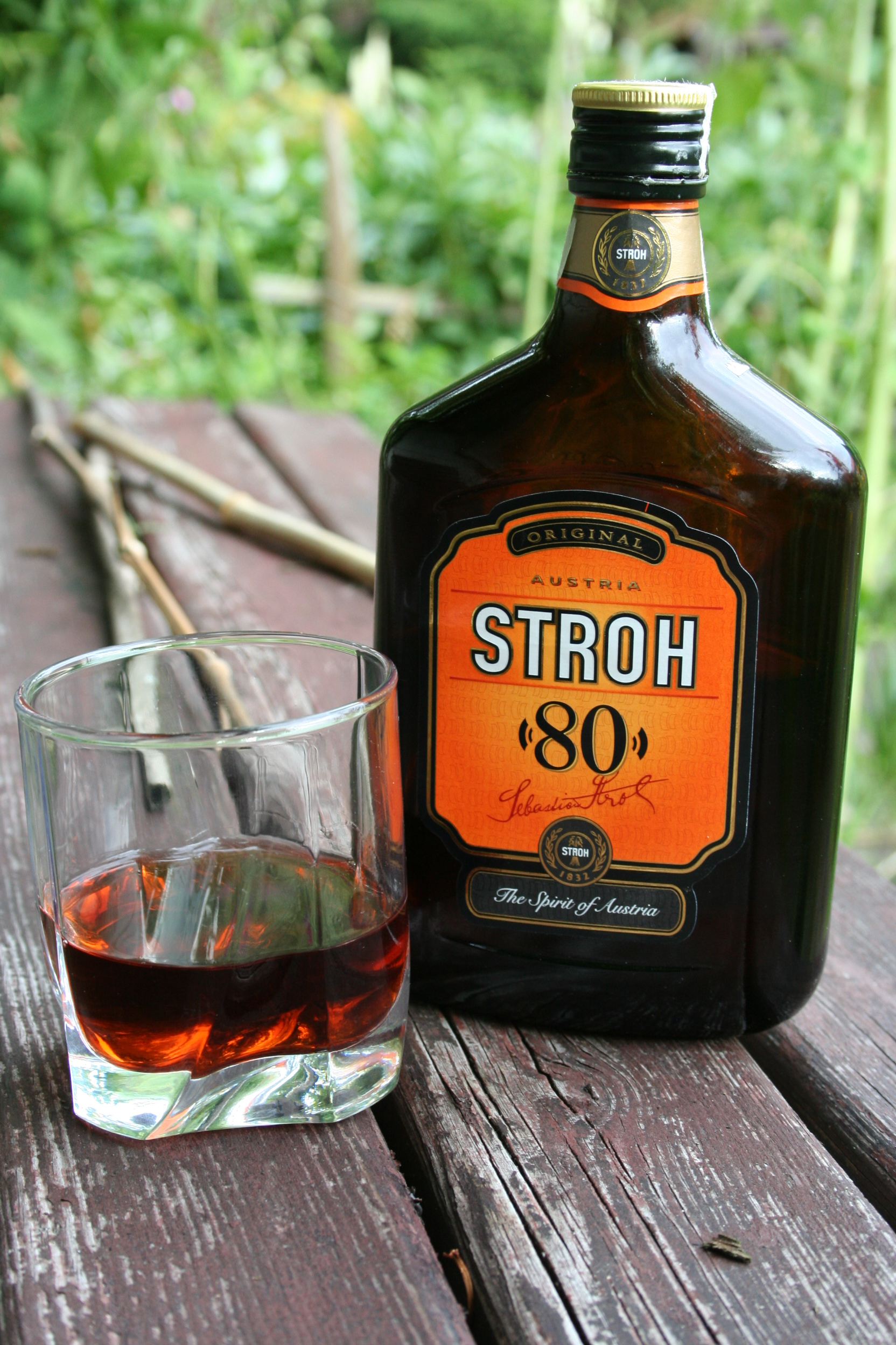 Austrian Rum